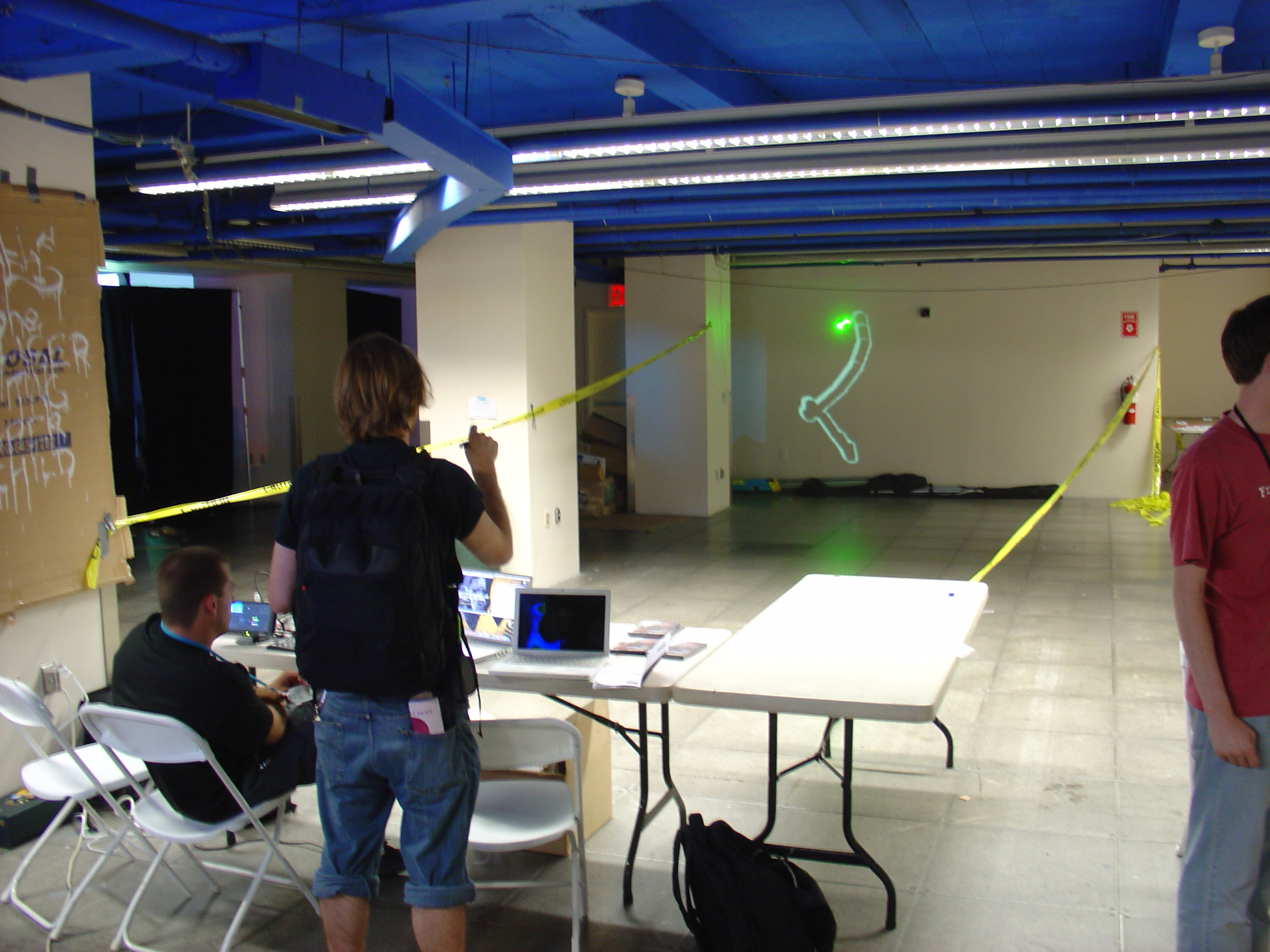 Laser tagging from the Graffiti Research Lab at the HOPE Conference.